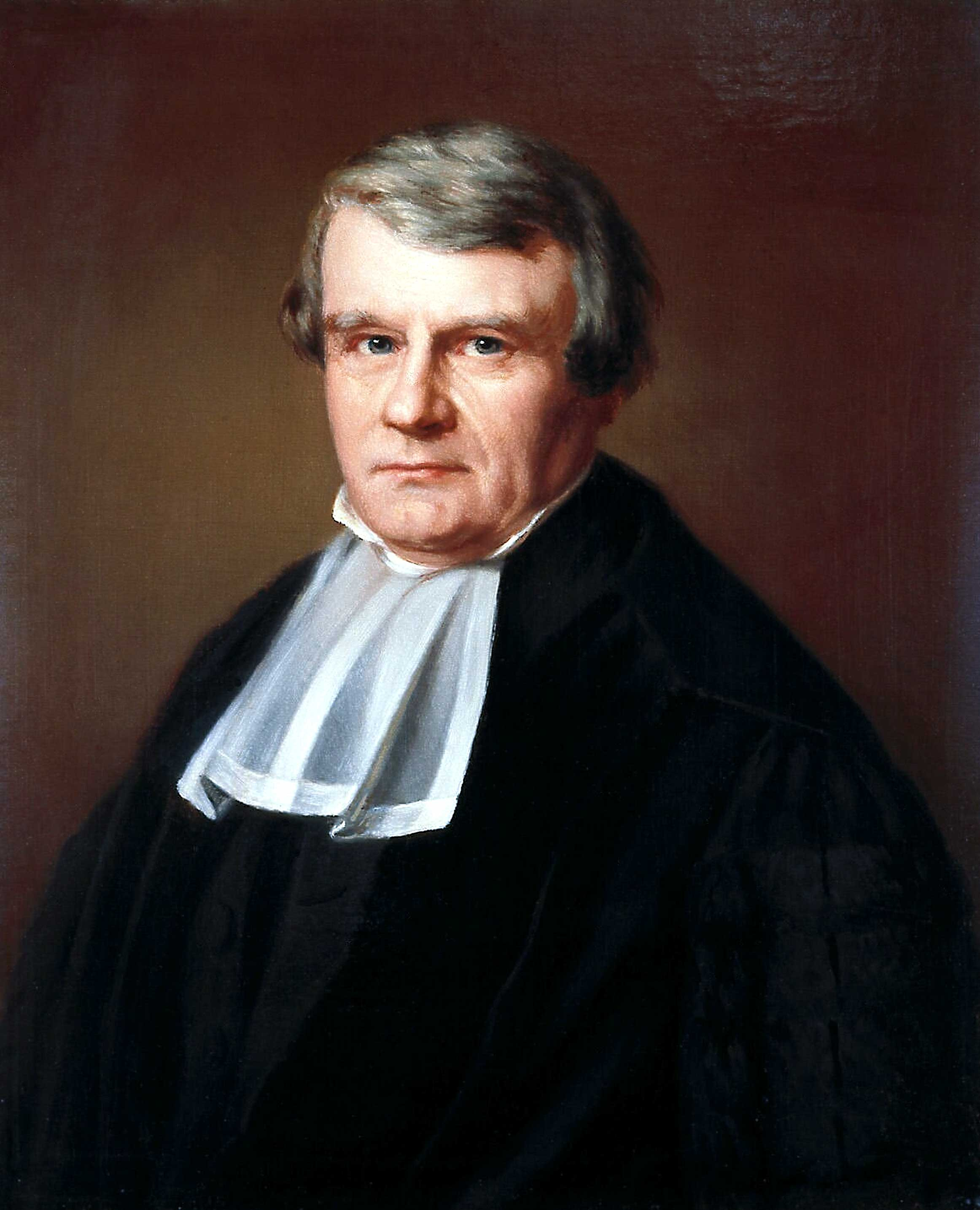 Jacobus Cornelis Swijghuijsen Groeneouwd (1784-1859) Dutch orientalist